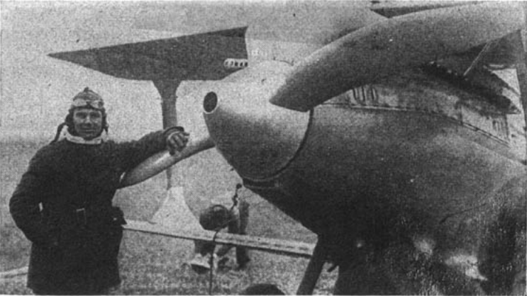 Picture of the Verville Packard R-1 Racer, which won the Pulitzer Trophy in 1920